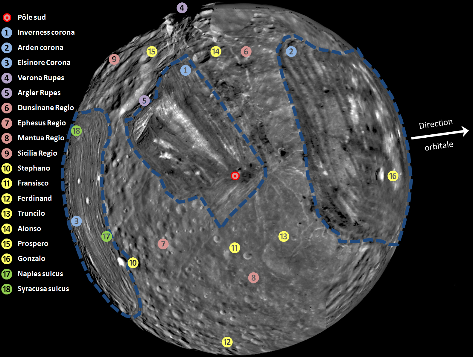 It's an Image from the NASA (Voyager 2) where I've put the geologic features as defined in the Gazetteer of Planetary Nomenclature.